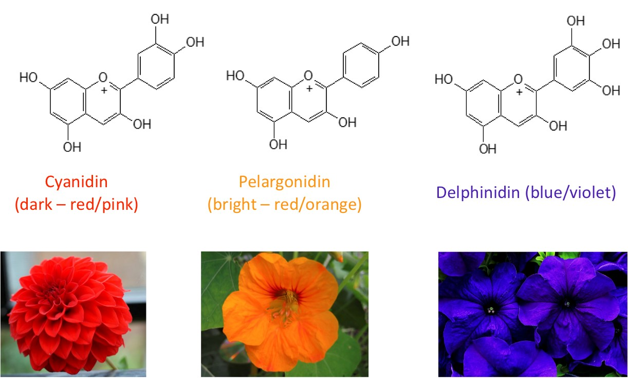 Chemical structures of the three main types of anthocyanins